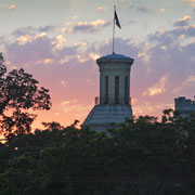 BellTower